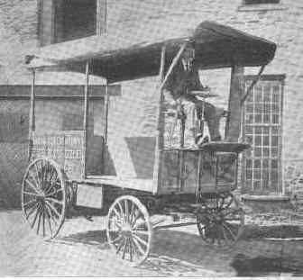 The Cruickshank Steam Engine Works in Providence, Rhode Island, built this steam wagon for a local warehouse, Shephard & Co., in 1896. Design was by Cruickshank's superintendent, L. F. N. Baldwin, who later co-founded the Baldwin Automobile Company in Connellsville, Pennsylvania. The Cruickshank Steam Delivery was made in the USA. Cruickshank also delivered steam engines for the Cross steam car.